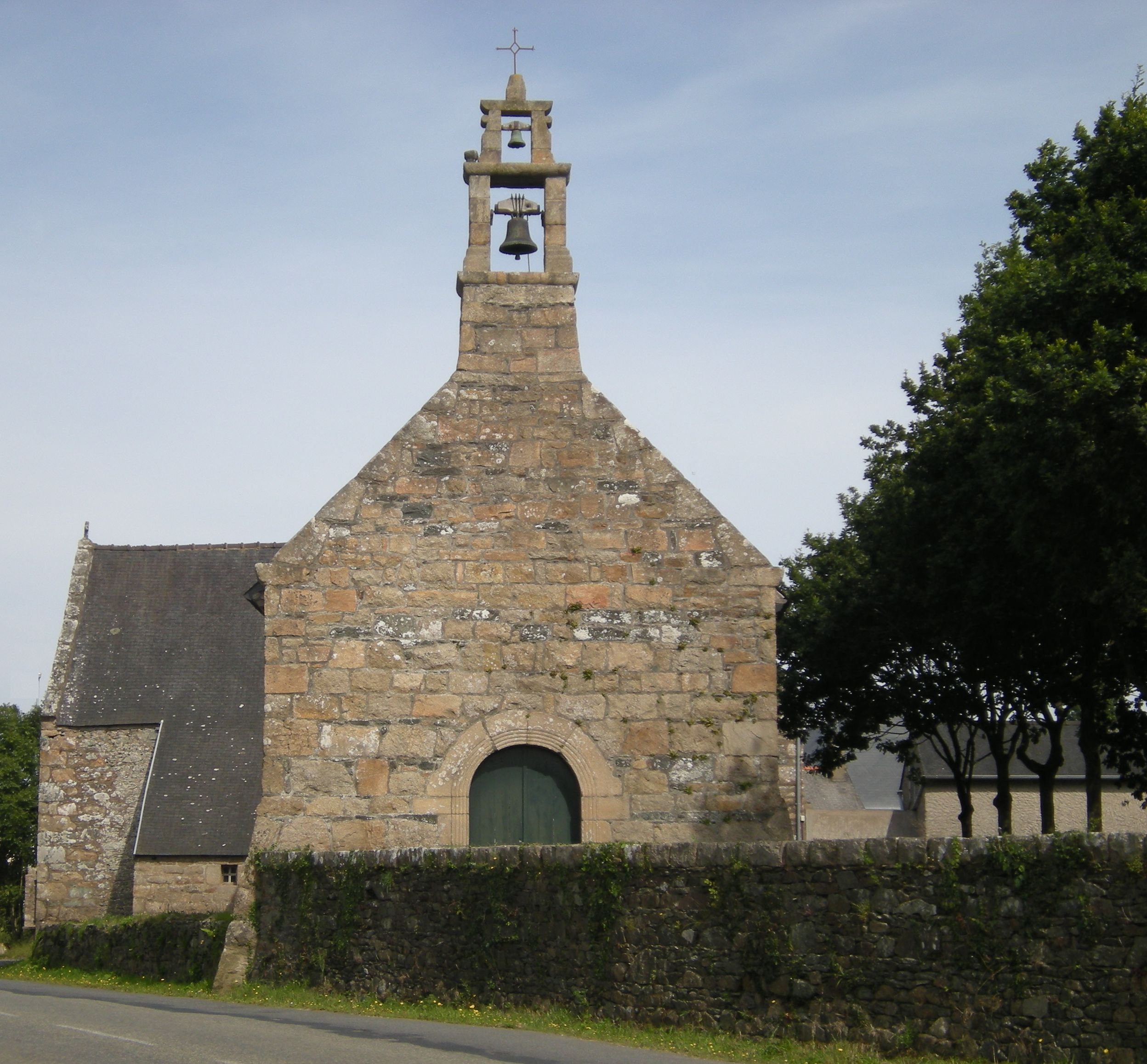 Kergrist chapel, Paimpol